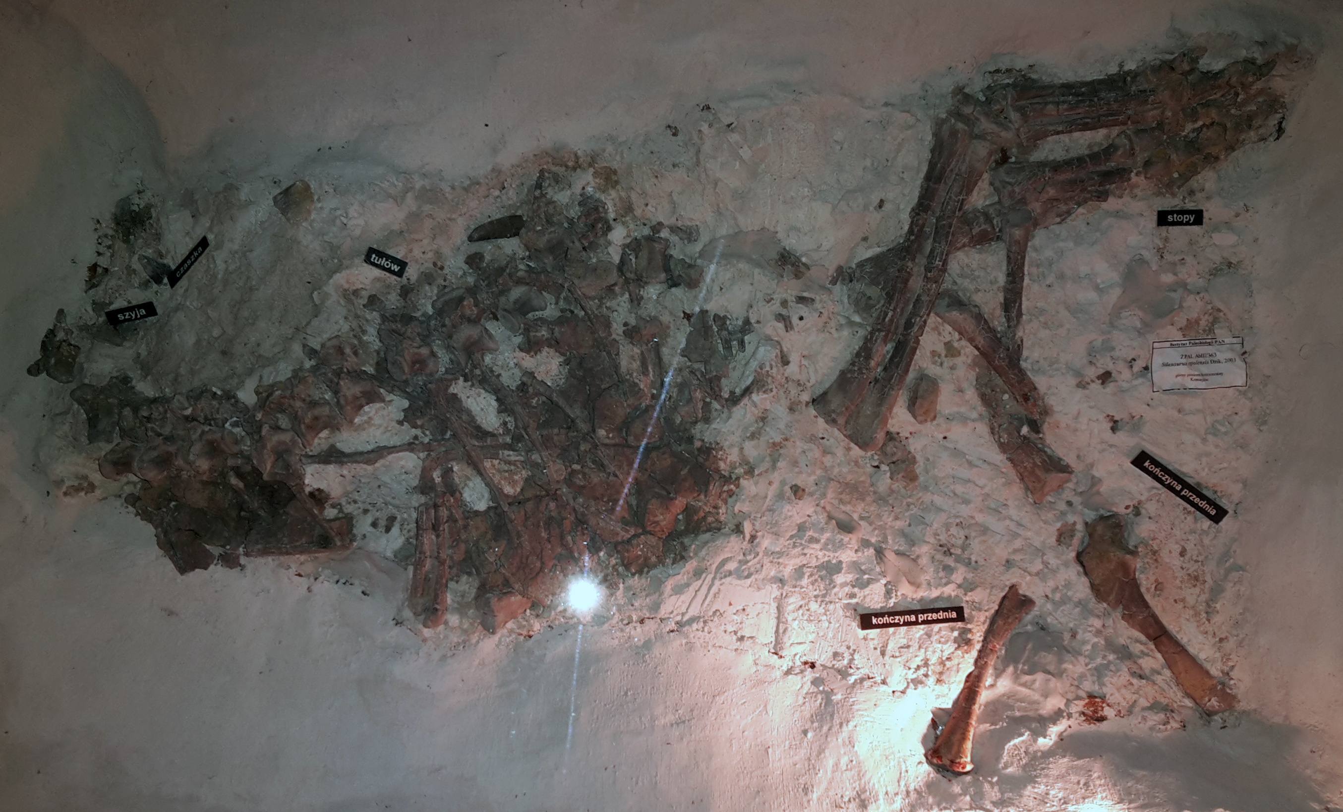 Silesaurus opolensis specimen ZPAL Ab III/364, Museum of Evolution of Polish Academy of Sciences, Warsaw.